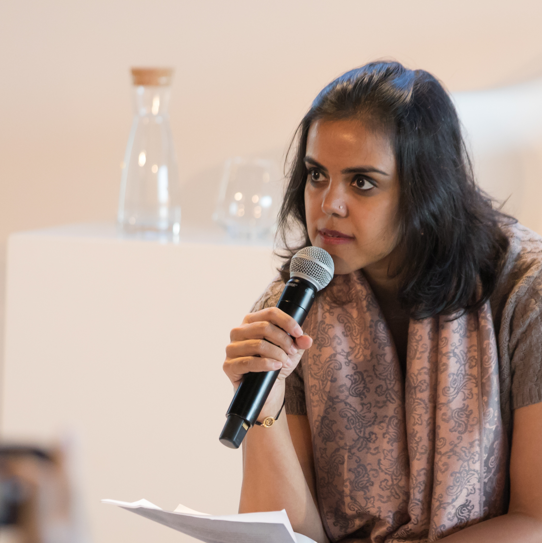 Neha Kirpal, Social and Cultural Entrepreneur, at the YGL Alumni Annual Summit 2018. Copyright World Economic Forum / Stephen Porter